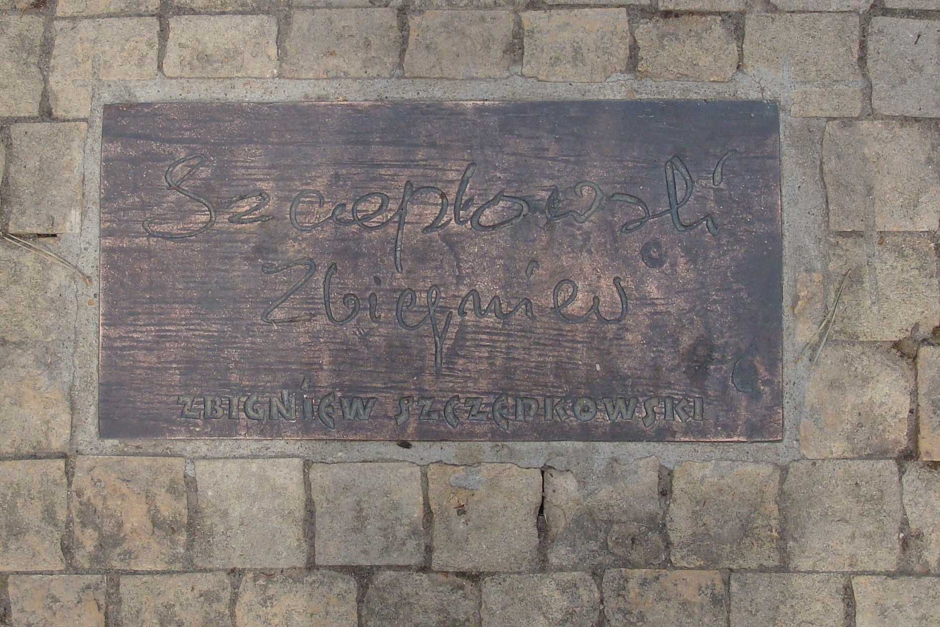 Polish Cycling Walk of Fame in Nałęczów, Poland. Signature of Zbigniew Szczepkowski.